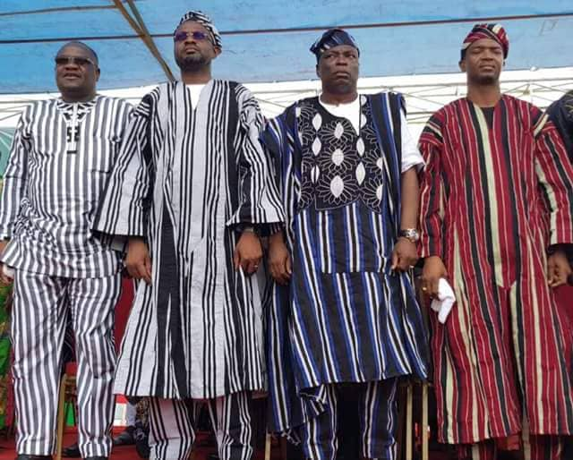 Borgu men proudly displaying the fashion and beauty of the Borgu dress which is called "Taako". the picture is taken in Benin Republic in 2018.